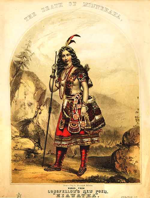 Charles Crozat Converse's setting of "The Death of Minnehaha", cover design by John Henry Bufford, Boston 1856